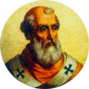 Portait of Pope Marinus I in the Basilica of Saint Paul Outside the Walls, Rome